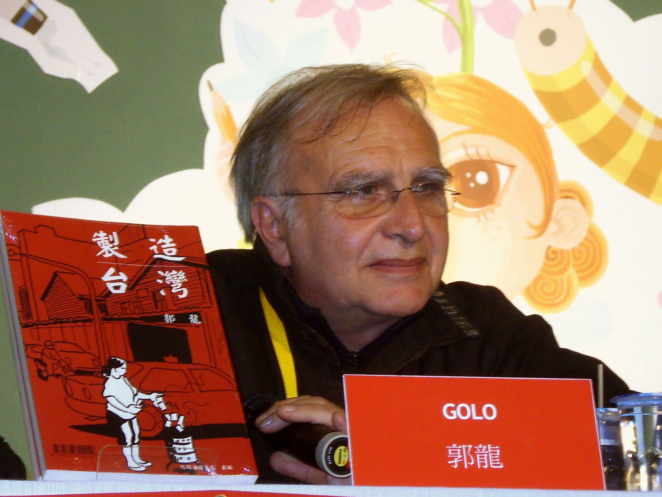 2008 Taipei International Book Exhibition - Hall 1 Theme Square: Golo, famous author from France.